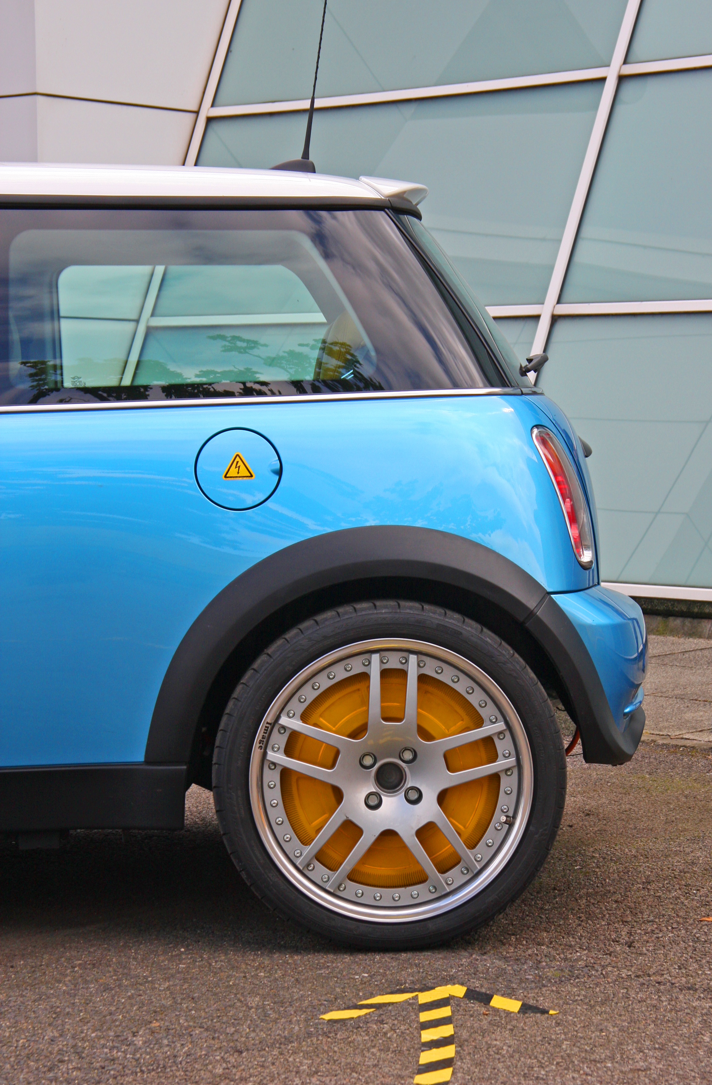 PML Mini QED electric vehicle developed by PML Flightlink and Lotus. 160BHP per wheel = 640BHP Lotus 60th Celebration